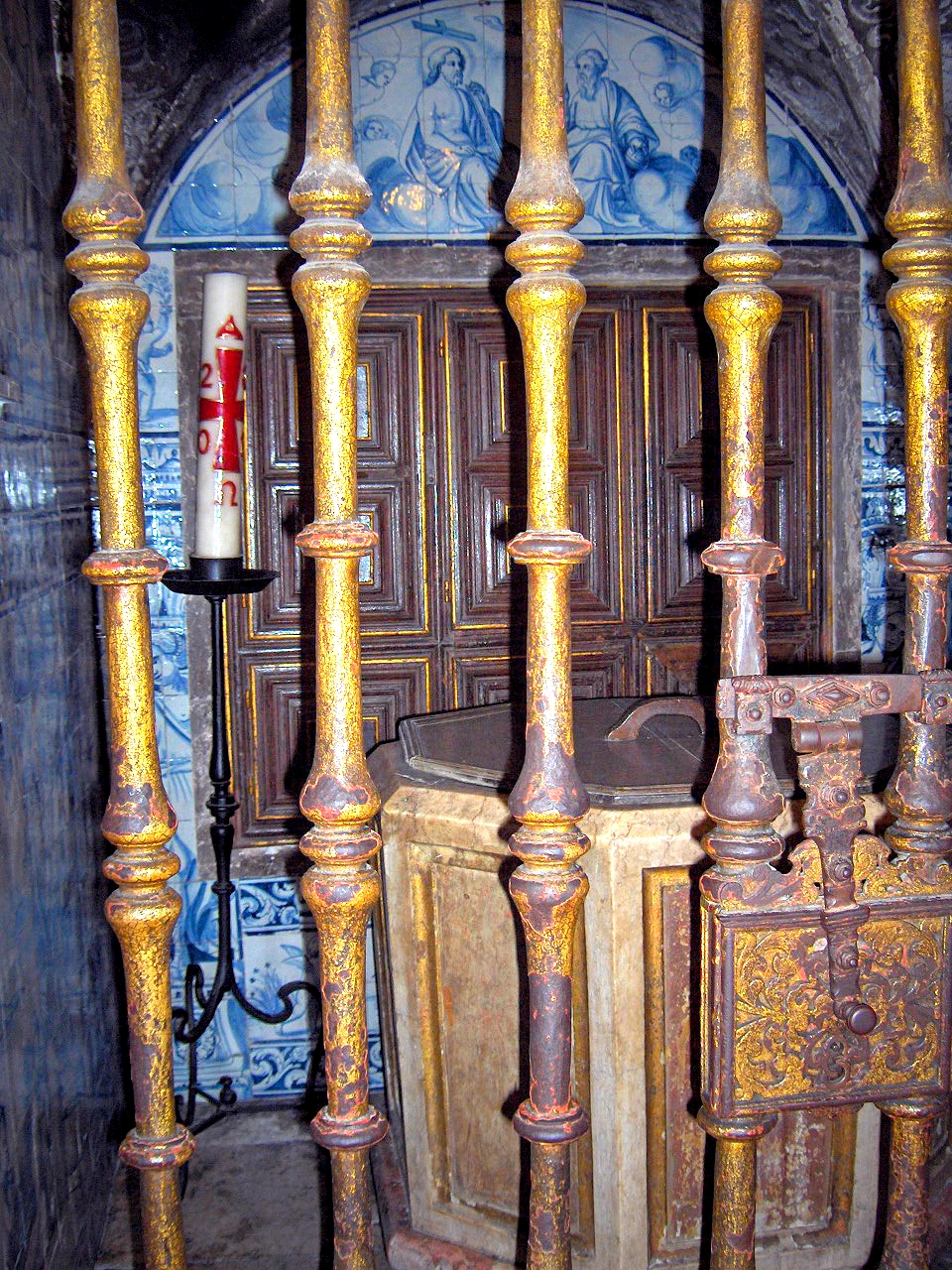 Chapel with baptismal font of St. Antony of Padua (1195) and Antonio Vieira (1608); Cathedral of Lisbon, Portugal